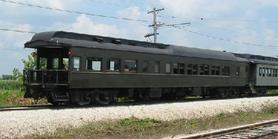 A heavyweight observation car on a museum train at the Illinois Railway Museum. Photo by Sean Lamb (User:Slambo), July, 2004.